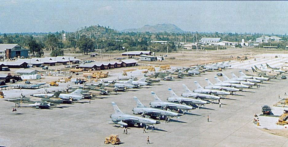 Republic F-105D Thunderchief fighter-bombers of the U.S. Air Force 4th Tactical Fighter Wing at Takhli Royal Thai Air Force Base, Thailand, in December 1965. Note that the F-105s are in the process of being camouflaged. The first plane on the left carries a AIM-9B Sidewinder air-to-air missile on its left outer wing pylon.